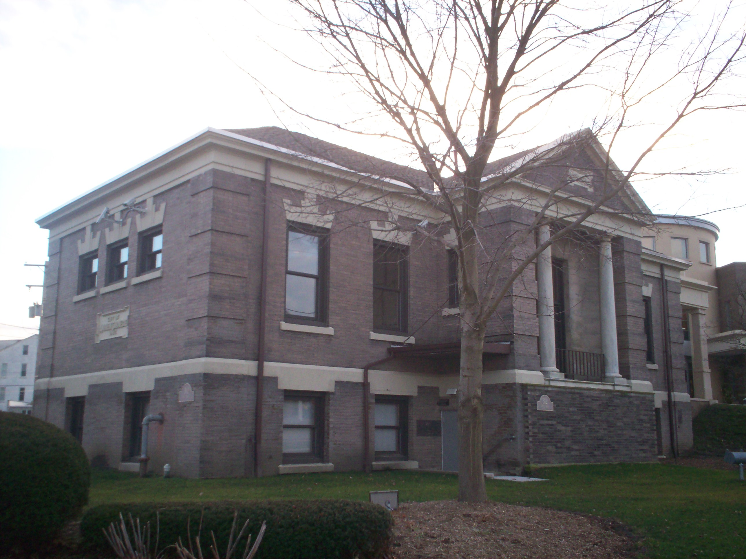 Photo of original Carnegie portion of Kent Free Library in Kent, Ohio, built 1902-1903. Originally uploaded to Wikipedia 13 March 2007